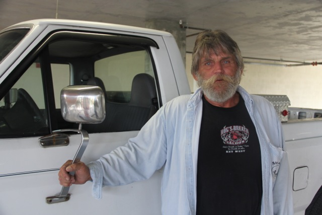 Vietnam veteran in front of truck where he lived for 18 months.